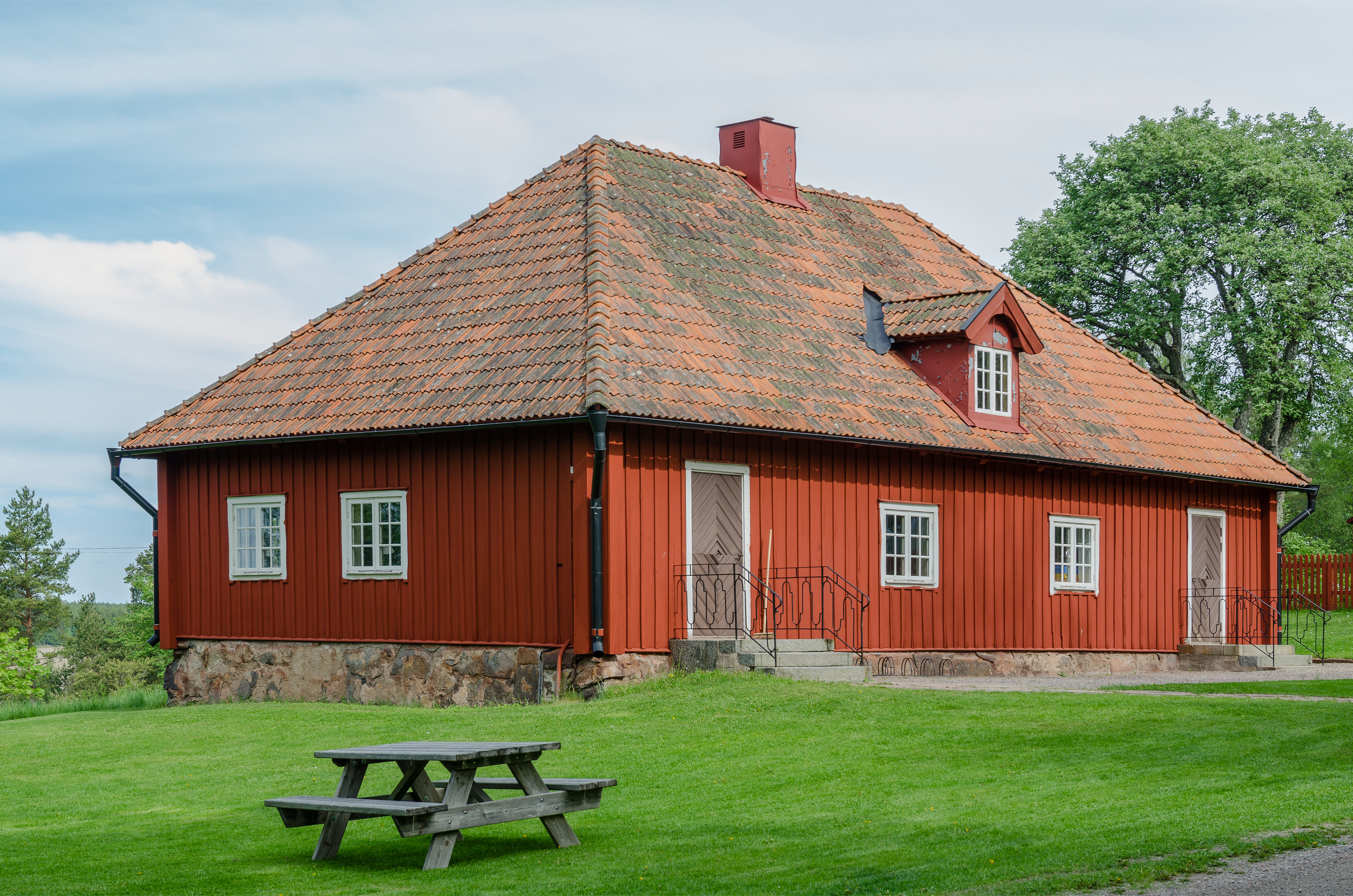 Lena sockenstuga (parish hall).